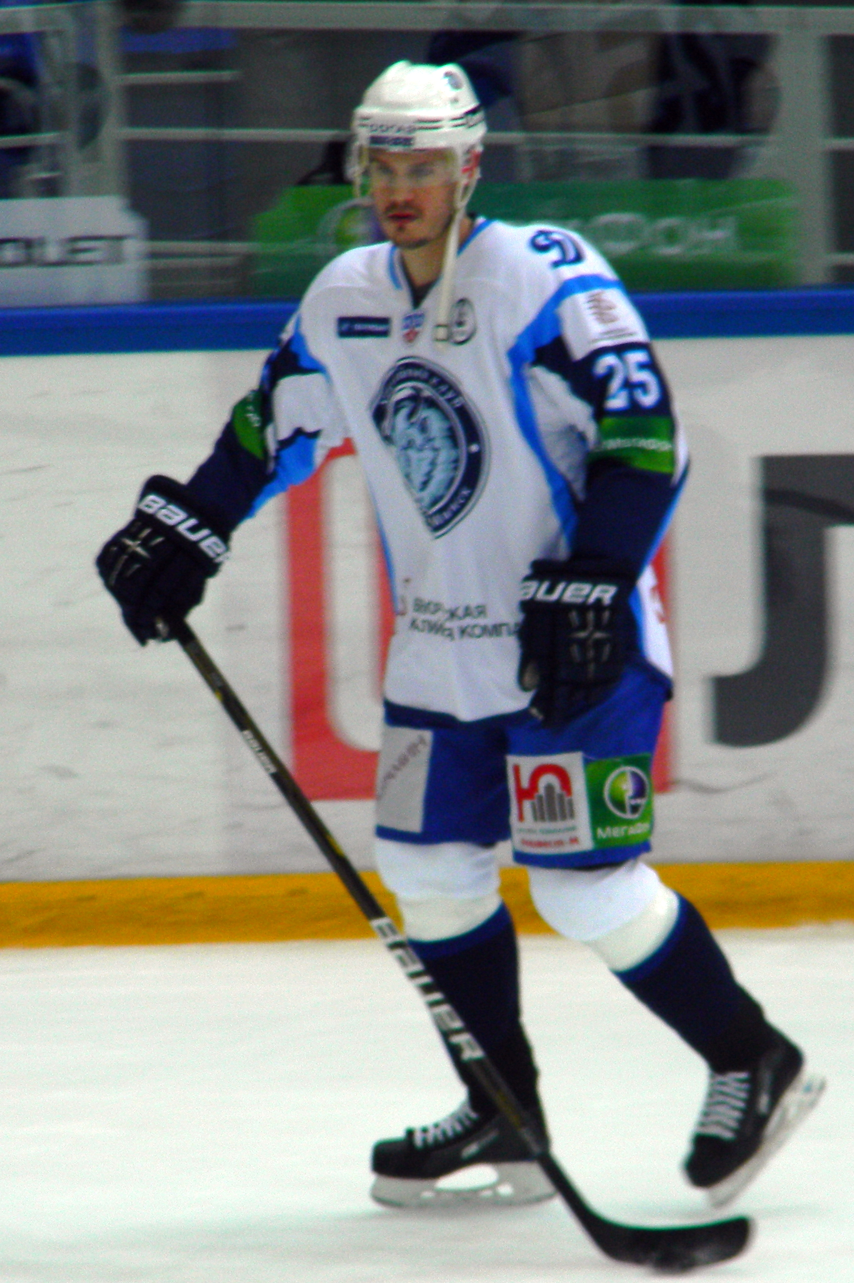 Lukáš Krajíček, a Czech ice hockey player from Dinamo Minsk